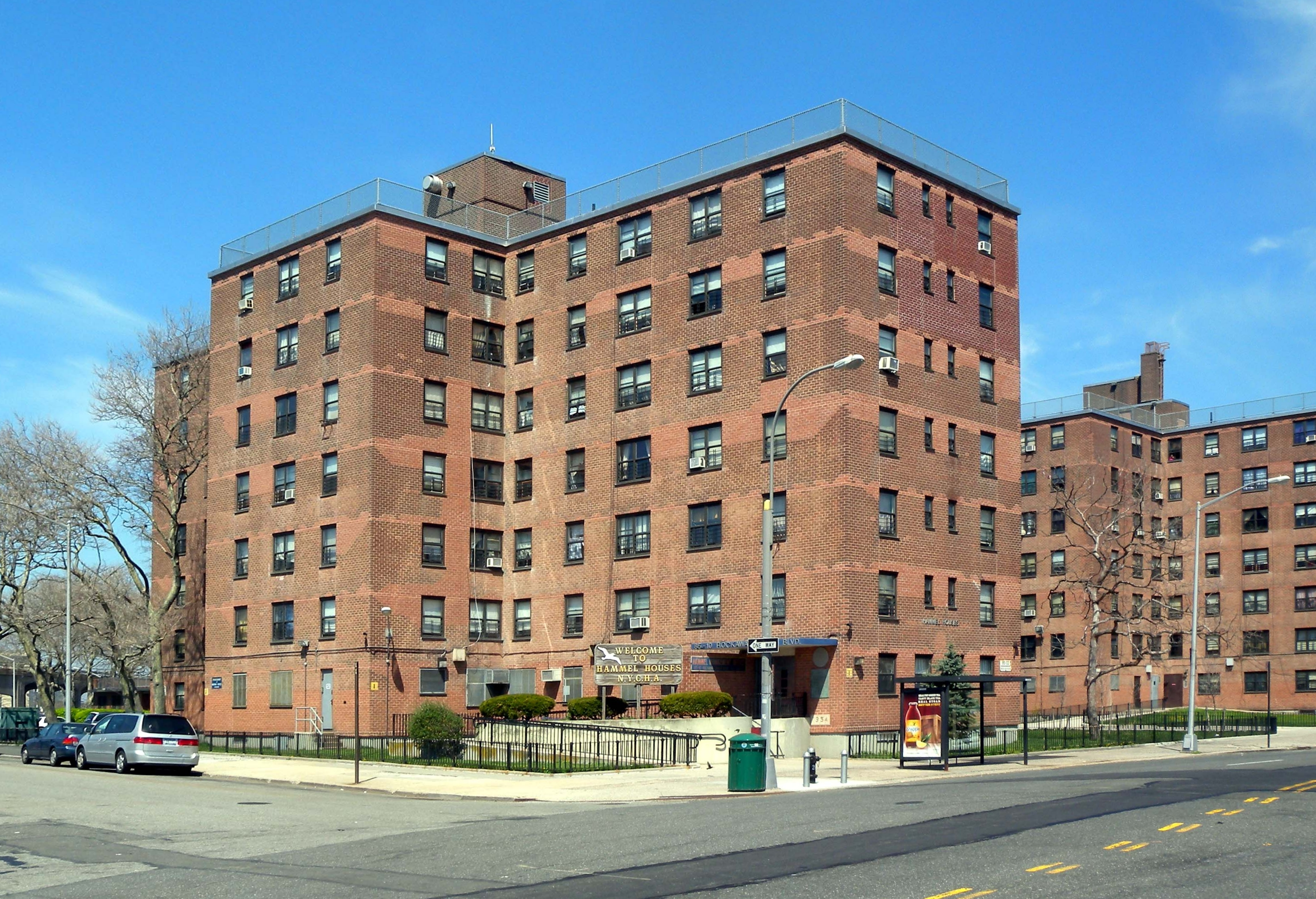 Hammel Houses on a sunny midday.